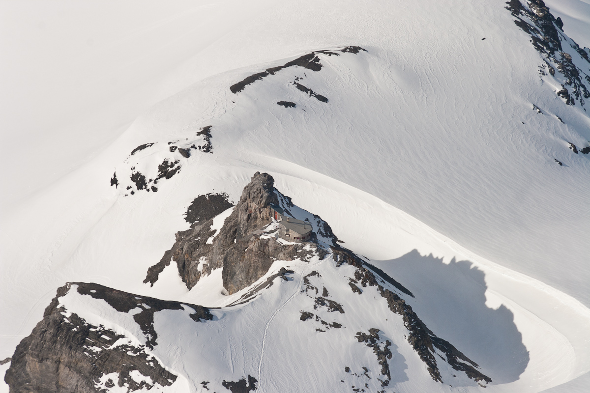 Planura Alpine Hut with Europe's biggest wind scour.